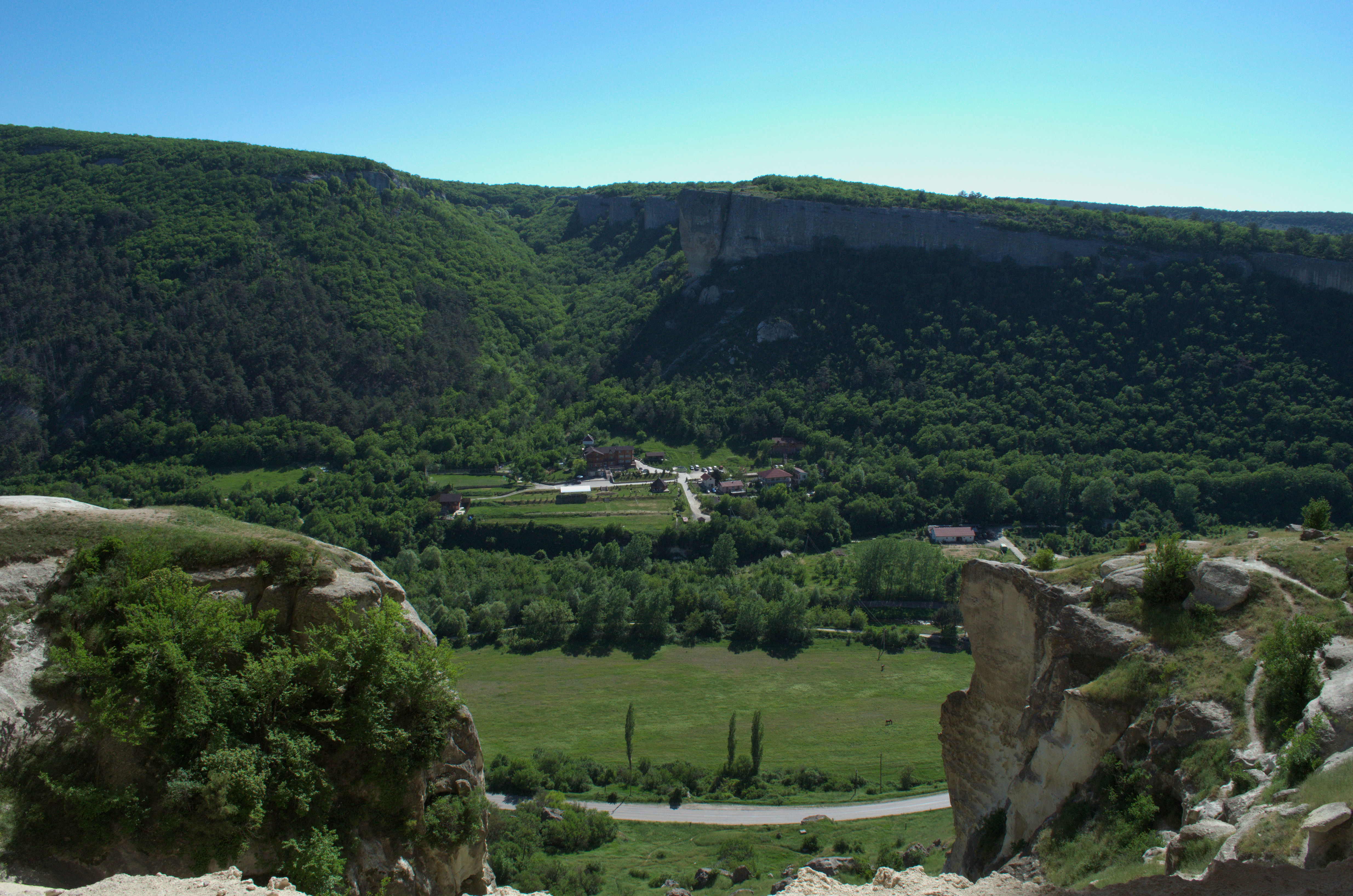 Cave Monastery Kachi-Kalon